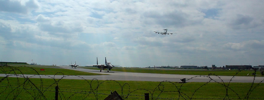 A Waddington based Boeing E3-D AWACS takes off while two United States Air Force F-15 aircraft taxi in preparation for an AMCI (Air Combat Manoeuvring Instrumentation Facility) sortie. This picture was captured by myself April 2004 and released to the public domain.